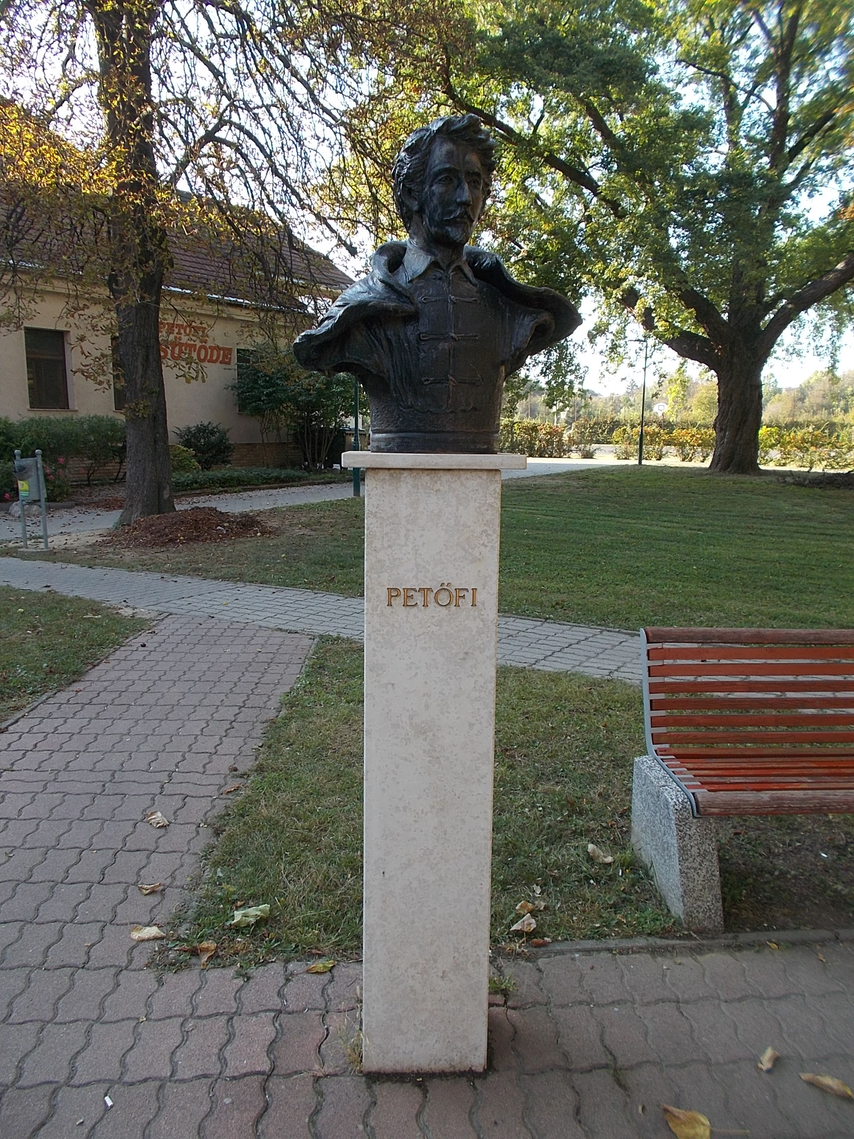 Sándor Petőfi by Gábor Varga (2006 Bronze bust) in the Petőfi square park, Újdombóvár neighborhood of Dombóvár, Tolna County, Hungary.